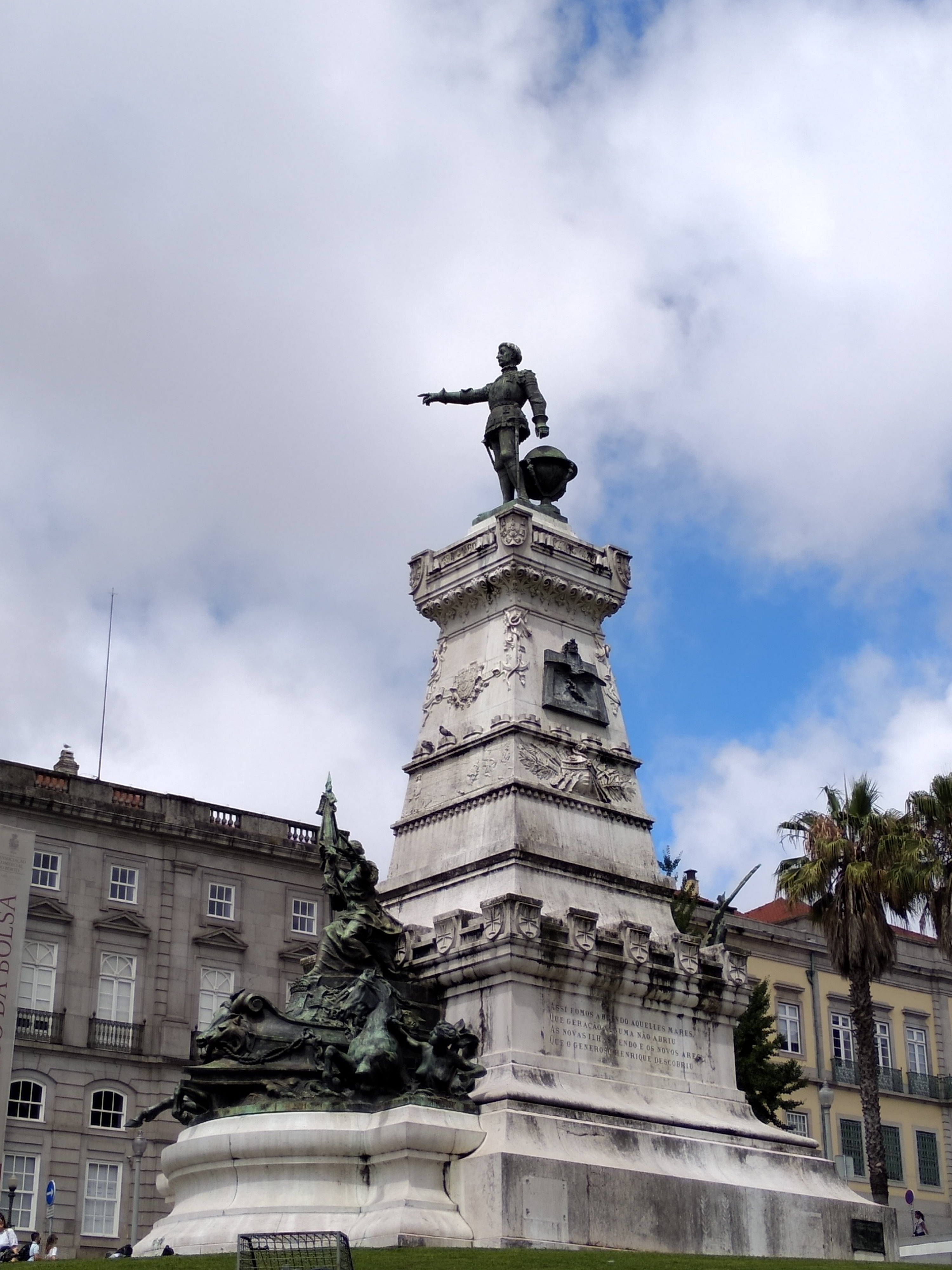 Prince Henry the Navigator